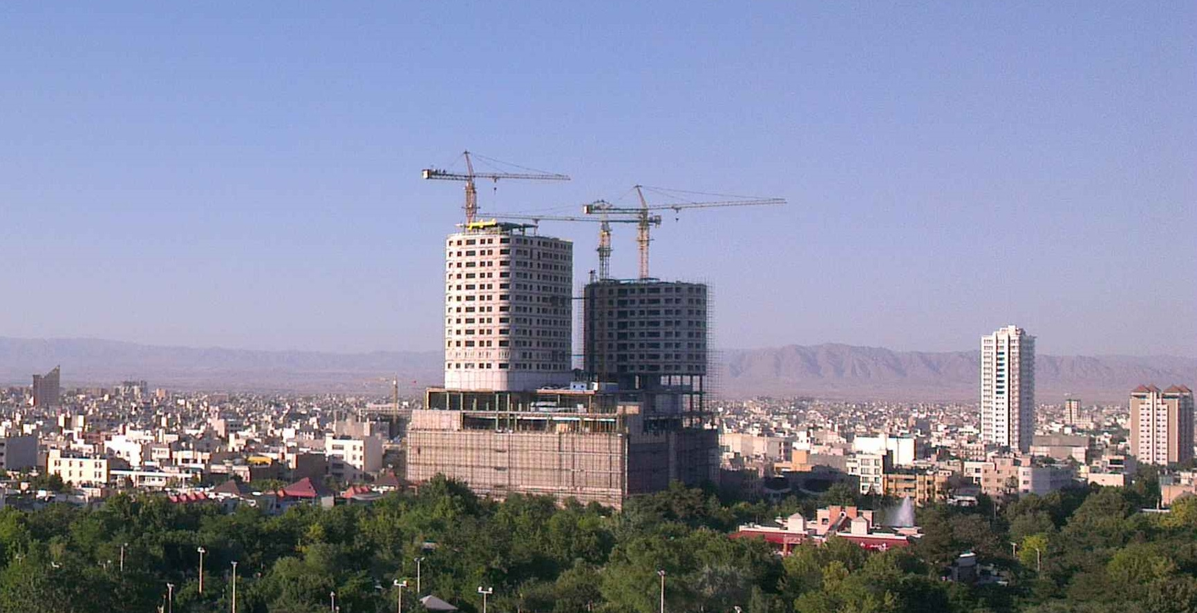 Mashhad from Kuhsangi cut from [1]